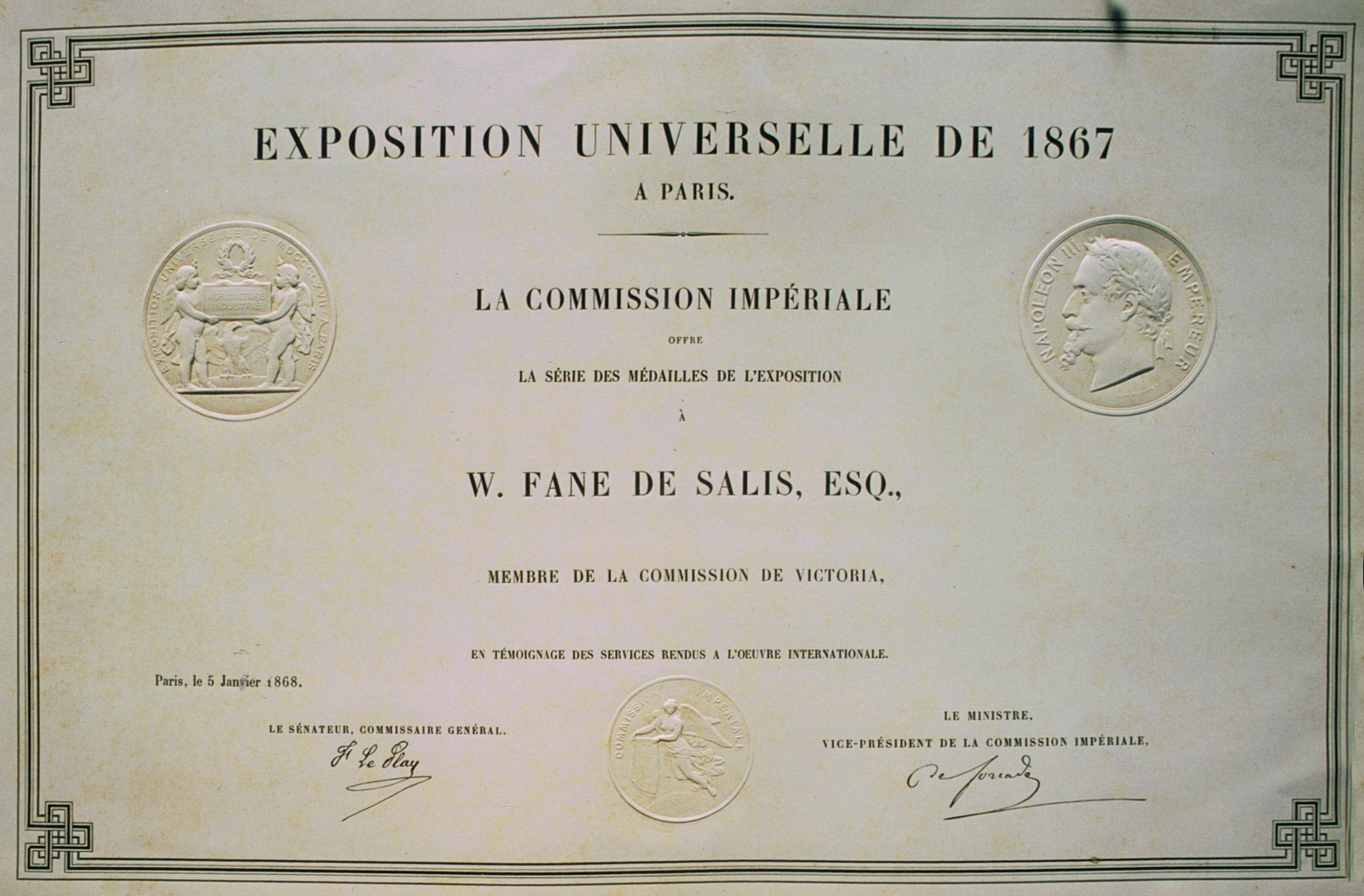 photo (by R. de Salis) of the commission awarded in 1868 to W. Fane de Salis for his part in the State of Victoria's stand in the 1867 Exposition Universelle de Paris.Rodolph (talk) 14:16, 24 November 2009 (UTC)